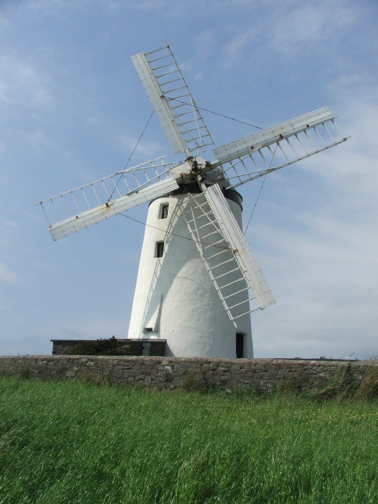 Ballycopeland windmill, Millisle, Northern Ireland. Credit - carolinehornet on Flickr.